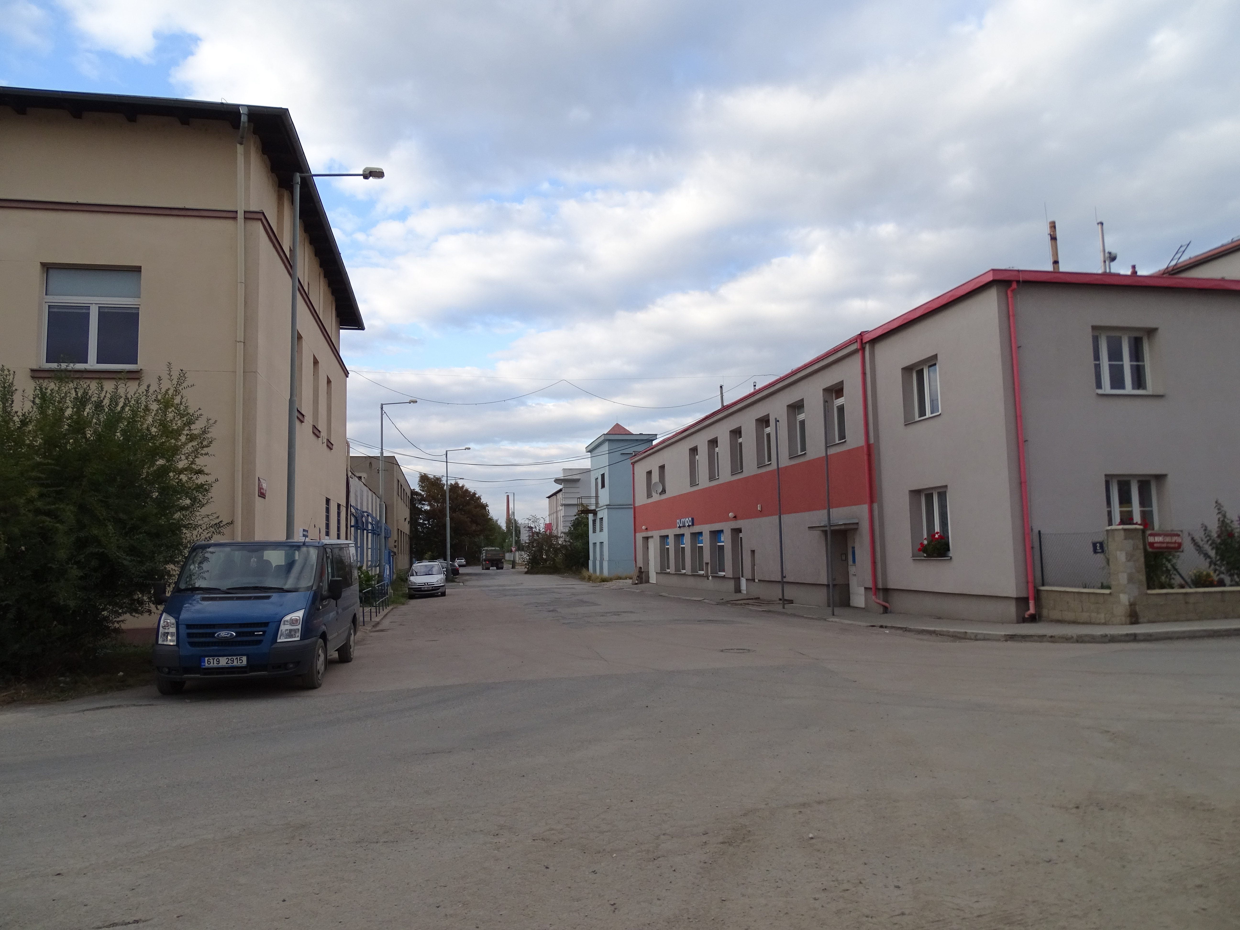 Prague-Hostivař, Czechia. U pekáren street, from Dolnoměcholupská street.